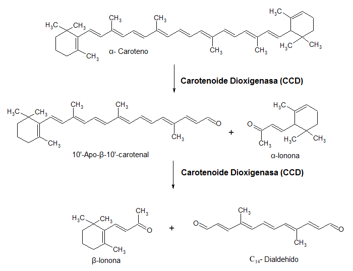 IONONES BIOSYNTHESIS